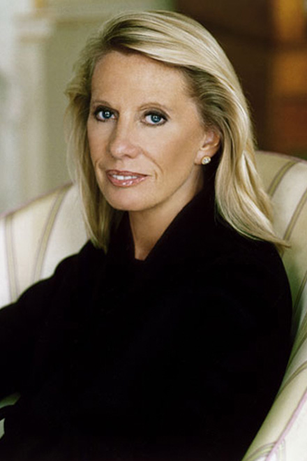 Carole, Lady Bamford